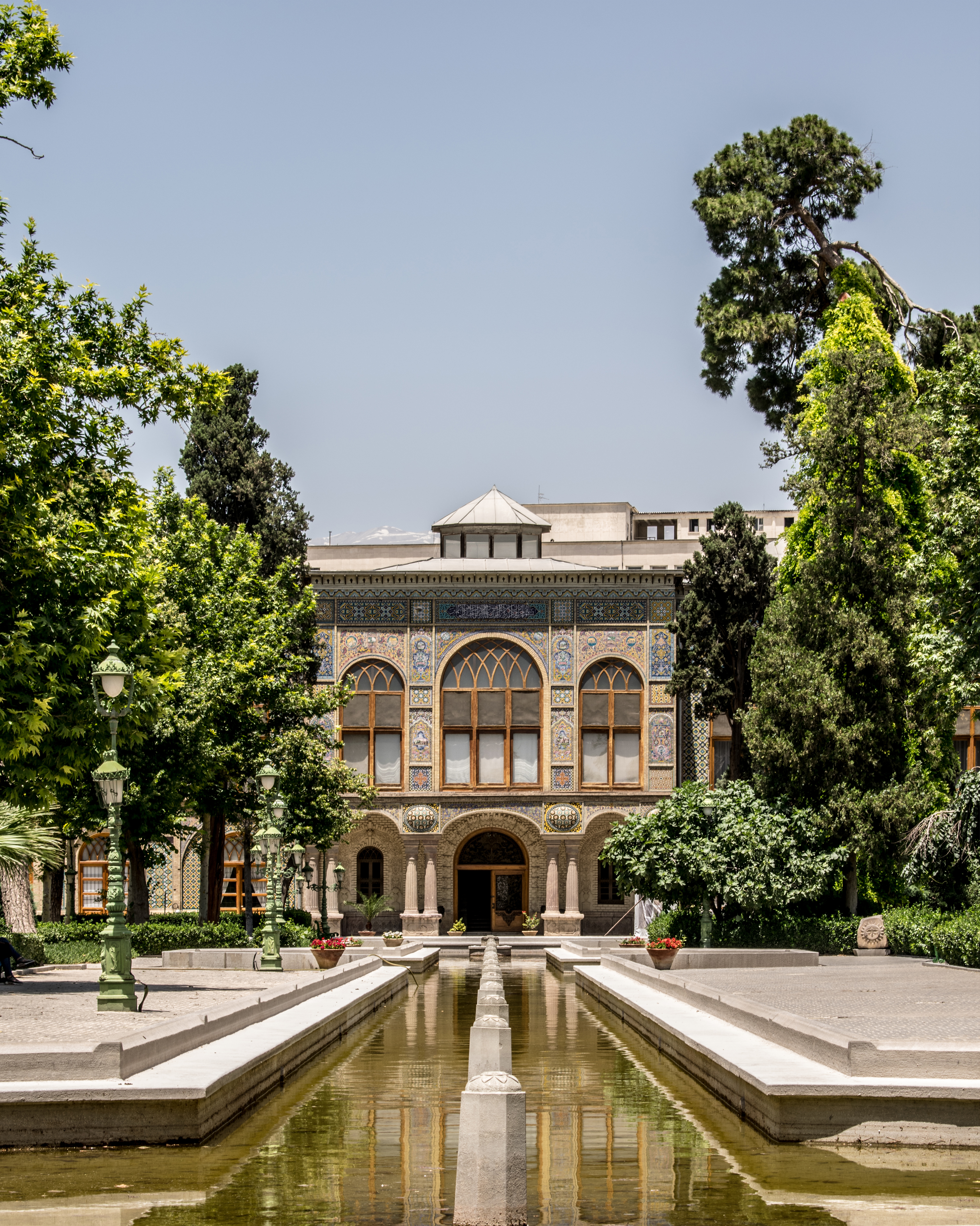 Golestan Palace